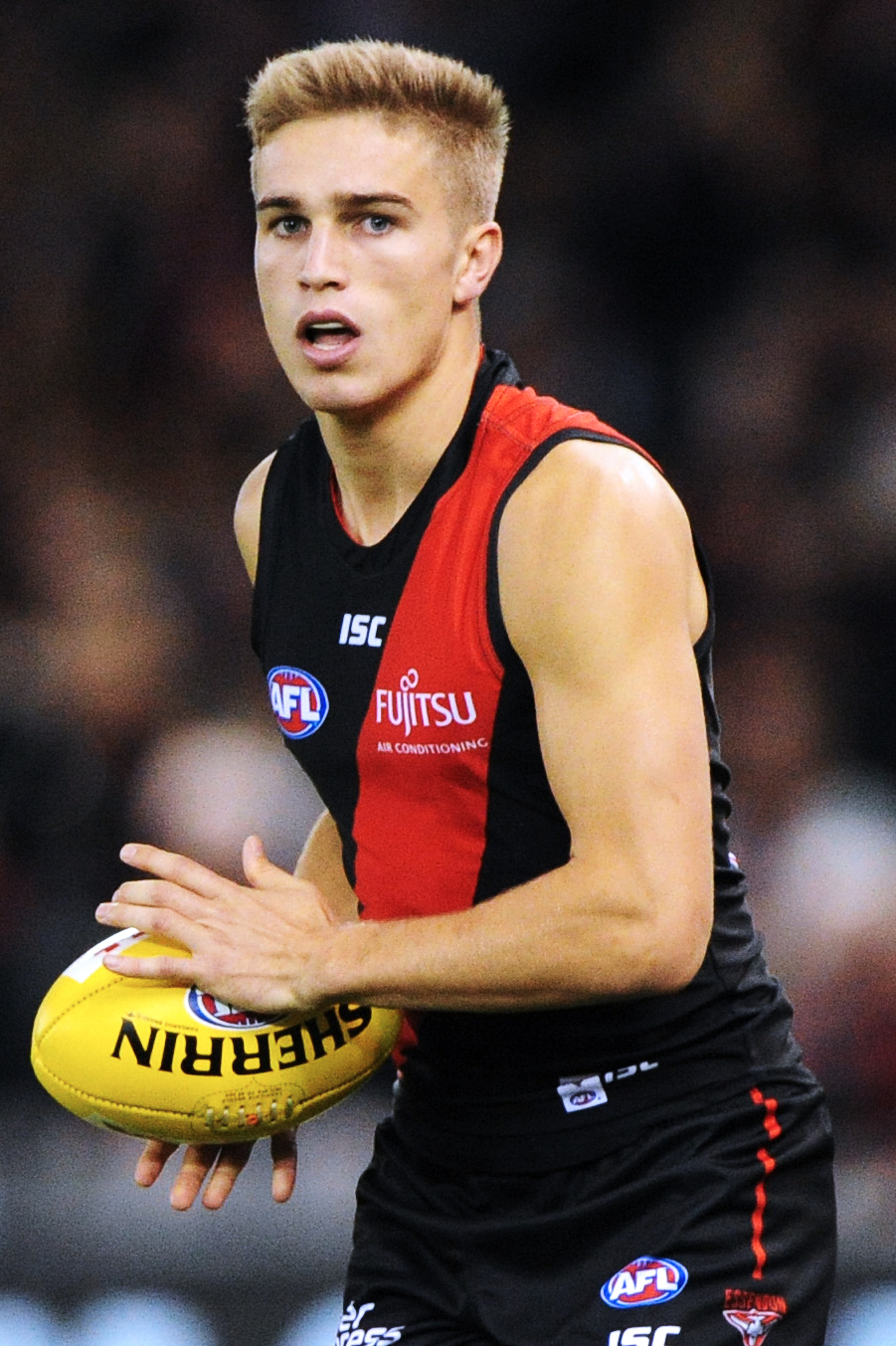 Matt Guelfi of Essendon during the 2018 AFL round 6 match between Essendon and Melbourne at Etihad Stadium on Sunday, 29 April 2018 in Melbourne, Victoria.